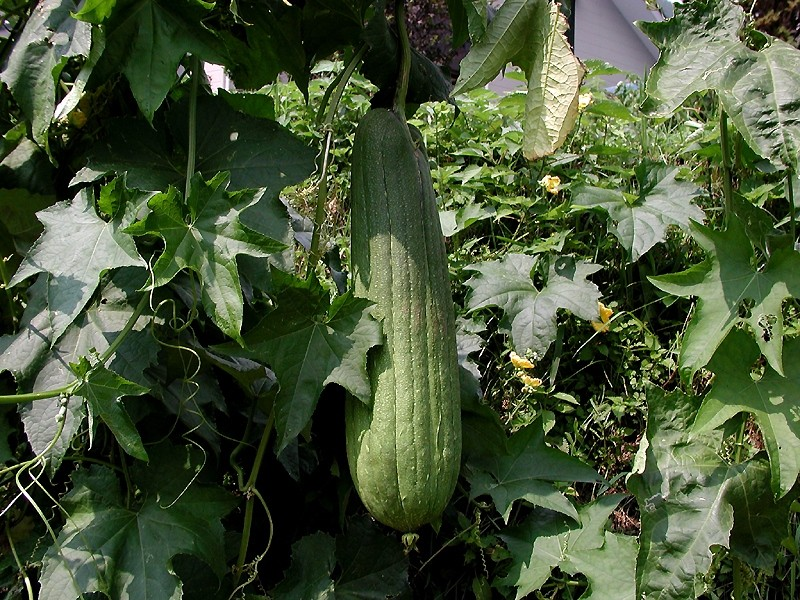 Luffa aegyptica including nearly mature fruit. Picture taken from Japanese Wikipedia - Image:W hetima2082.jpg